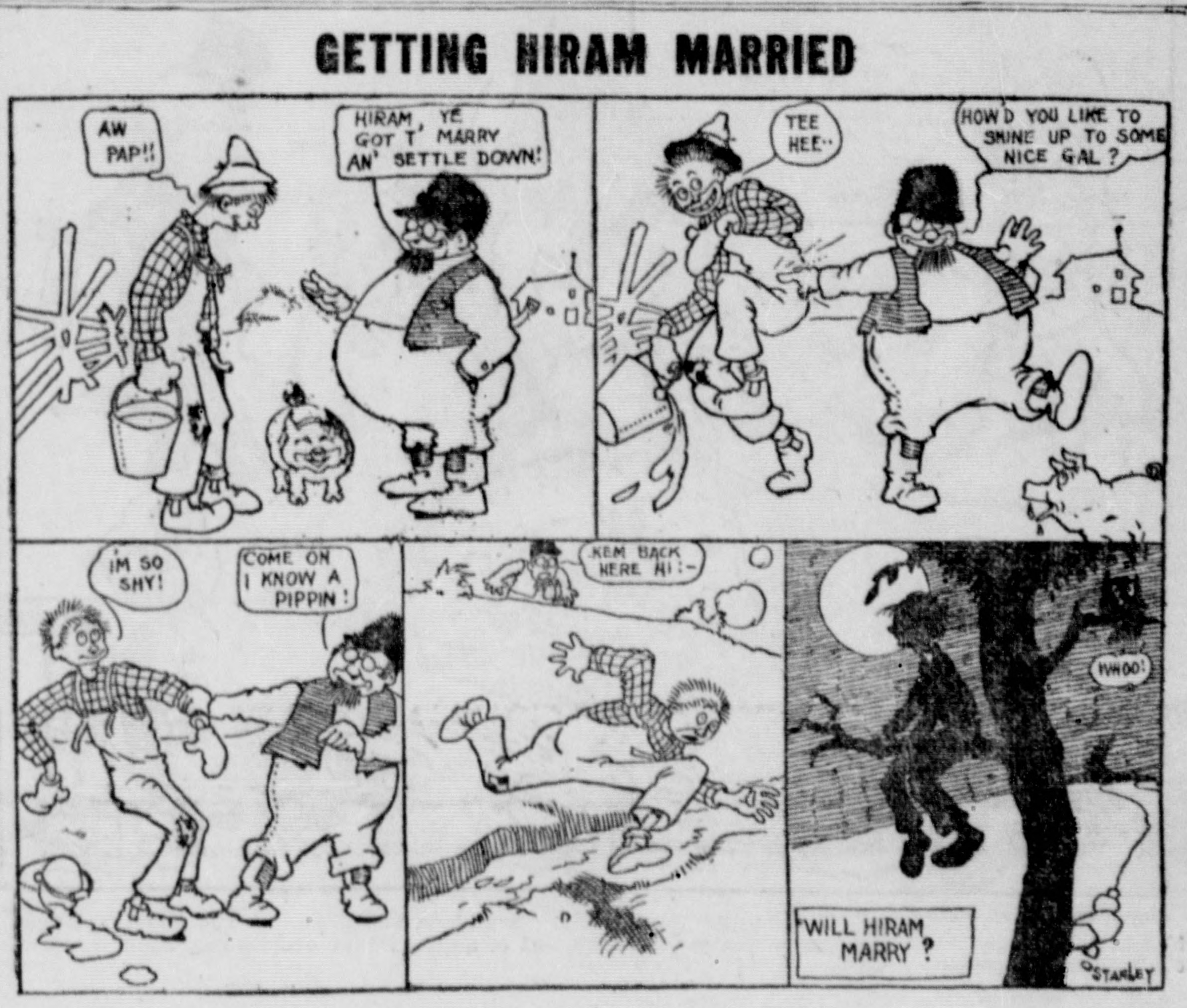 in this Lee W. Stanley cartoon, which may be part of his "The Old Home Town" series, a hillbilly tells his son Hiram that it's time for Hiram to get married. Hiram is shy, and flees. Dialogue Panel 1 Hiram: Aw Pap!! Hiram's father: Hiram, ye got t' marry an' settle down! Panel 2 Hiram: Tee Hee Hiram's father: How'd you like to shine up to some nice gal? Panel 3 Hiram: I'm so shy! Hiram's father: Come on I know a pippin! Panel 4 Hiram's father: Kem back here, Hi! Panel 5 Caption: WILL HIRAM MARRY? Owl: Whoo!